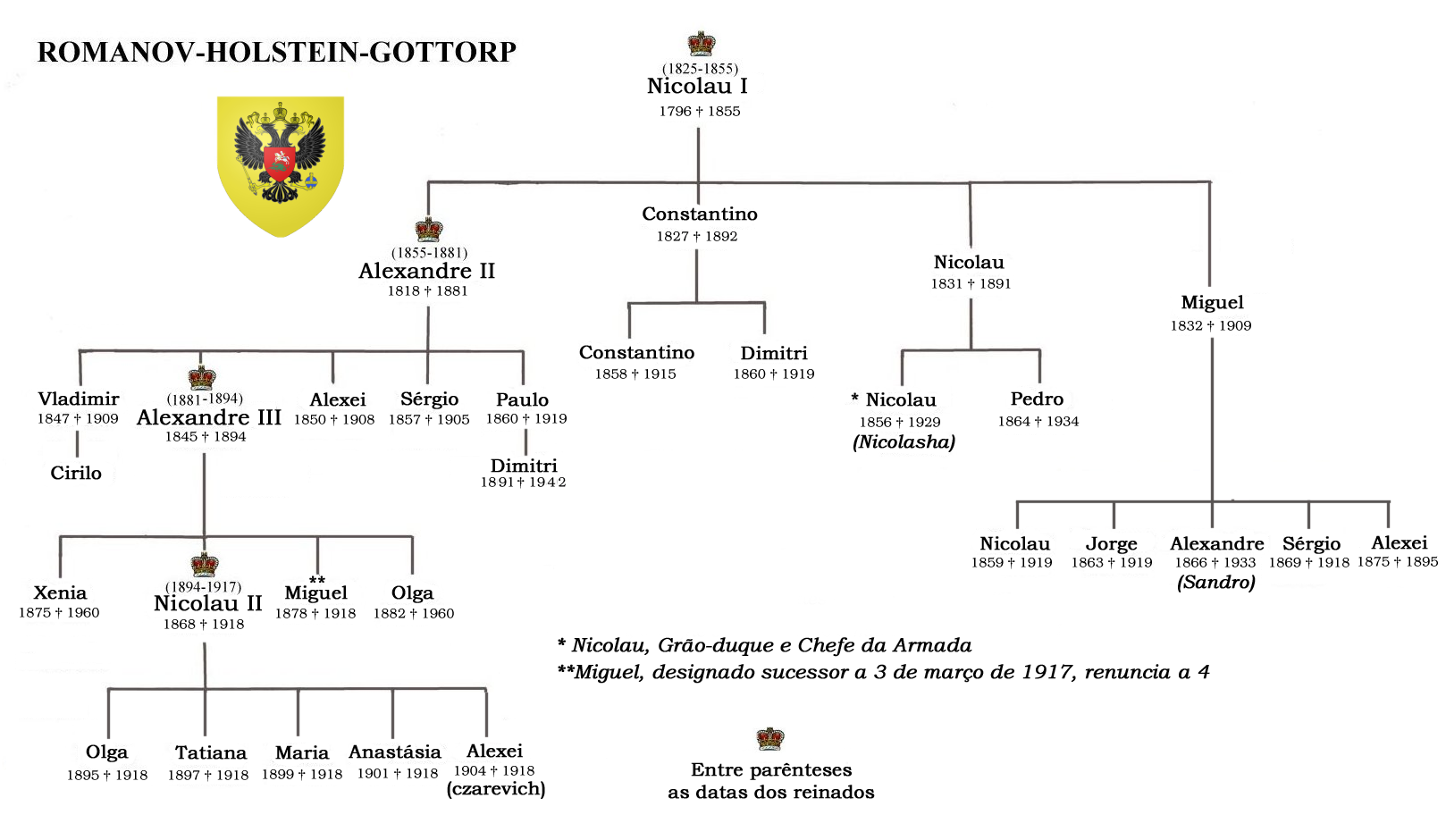 Genealogy summarized the Romanov-Holstein-Gottorp house therefore Nicholas I until Nicholas II of Russia